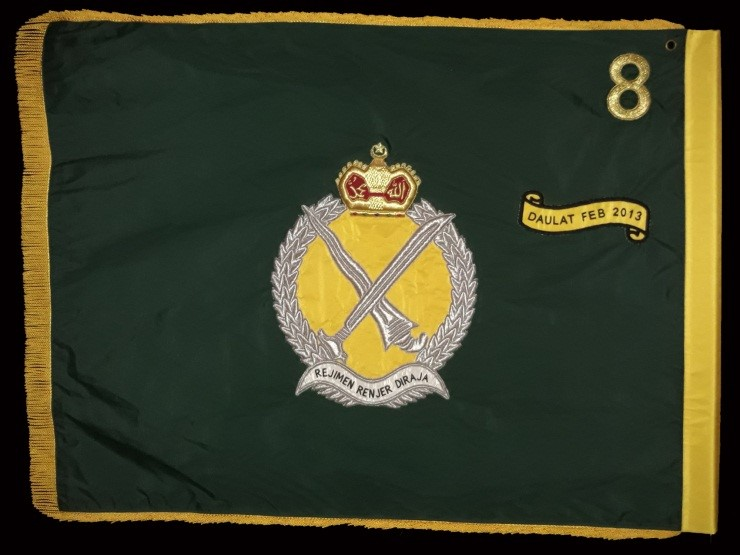 panji2 baru